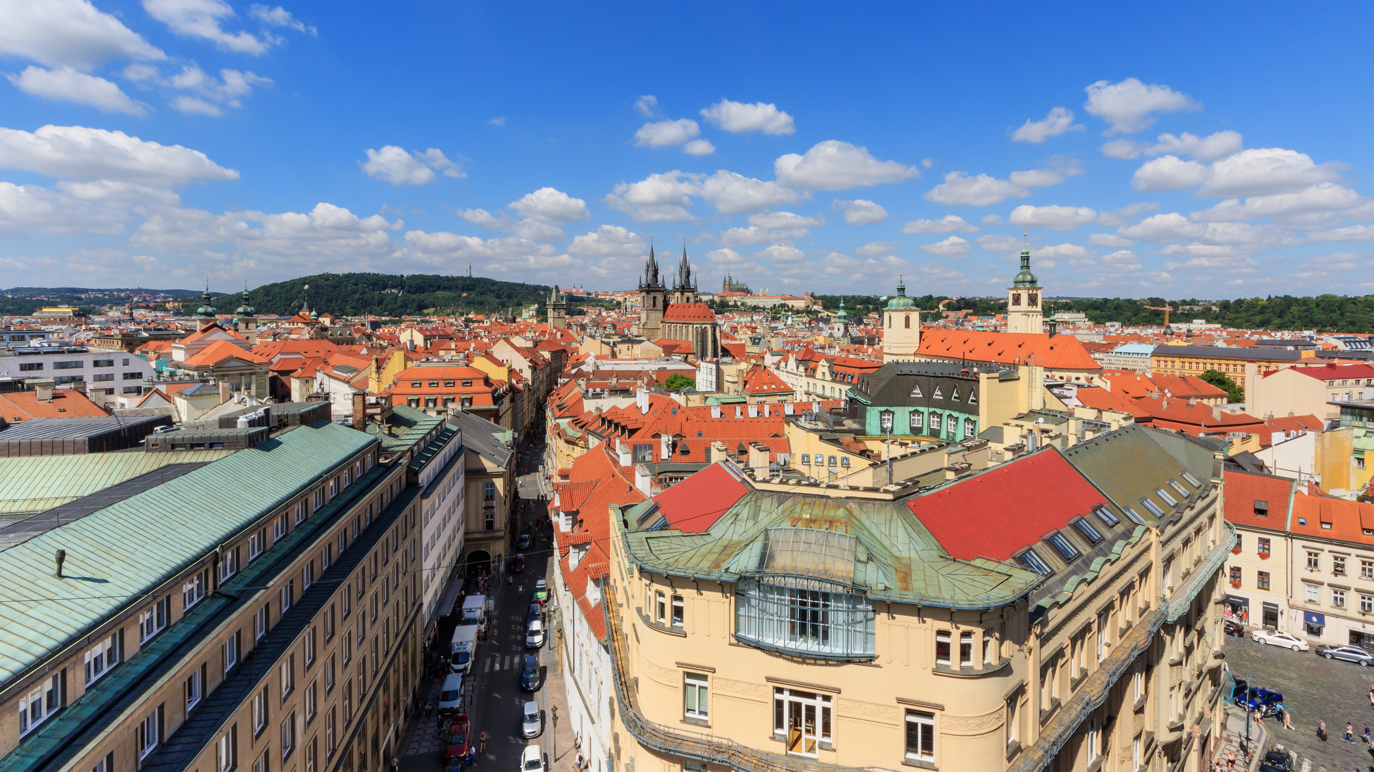 View from Powder Tower in Prague (Czech Republic)